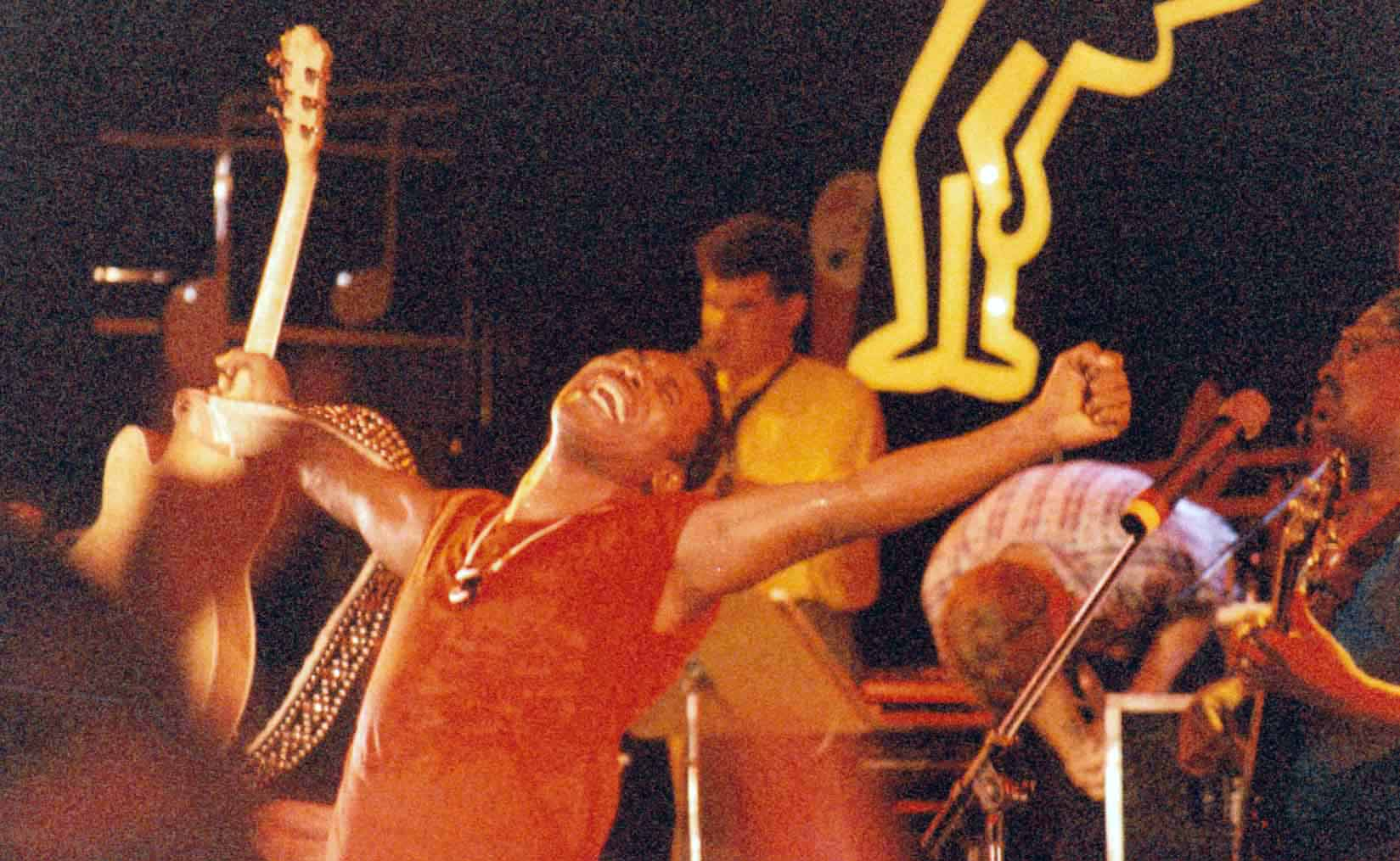 Georges Benson in 1986 at Montreux Jazz Festival.